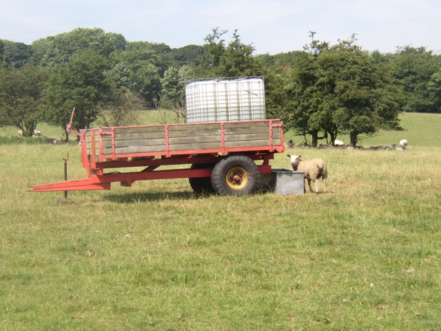 Water supply for sheep, Shelf. There are often drinking troughs in fields, but in this case a portable water supply has been provided. Presumably the farmer tops up the trough from time to time.